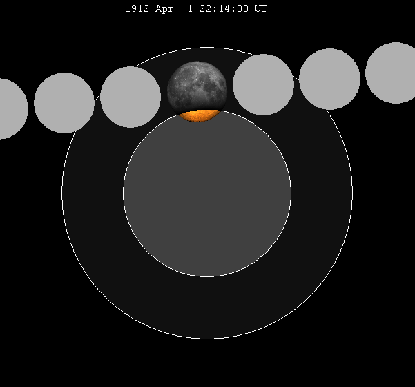 =lunar eclipse chart of moon's path through the earth's shadow. thumb